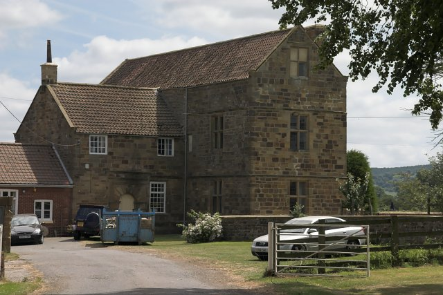 Leake Hall. Leake Hall and nearby St Mary the Virgin Church are all that remain of a once populous village. It's thought the most likely reason for the demise of the village was the black death in the 14th Century.